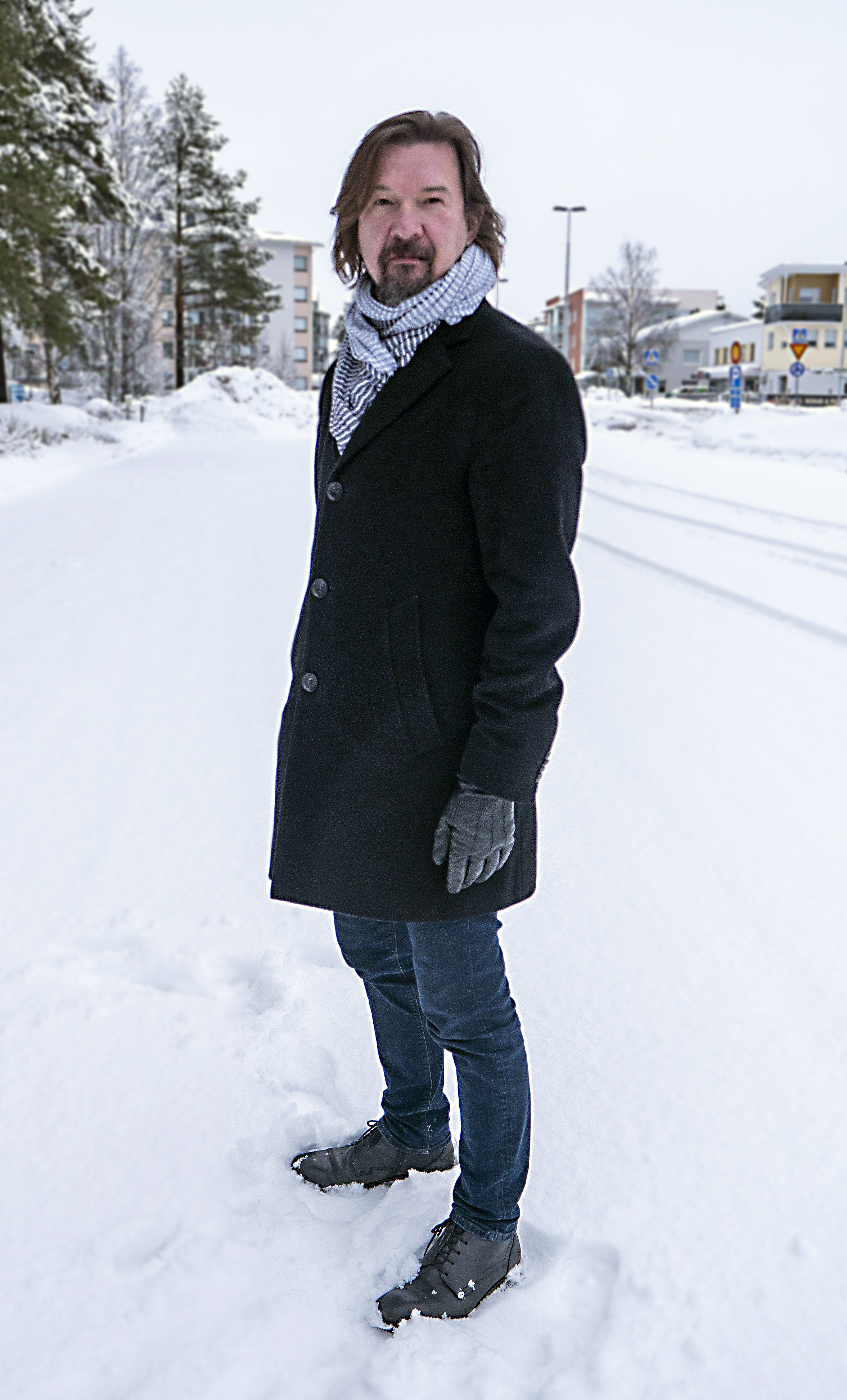 Finnish film director and screenwriter in Rovaniemi in February 2020.